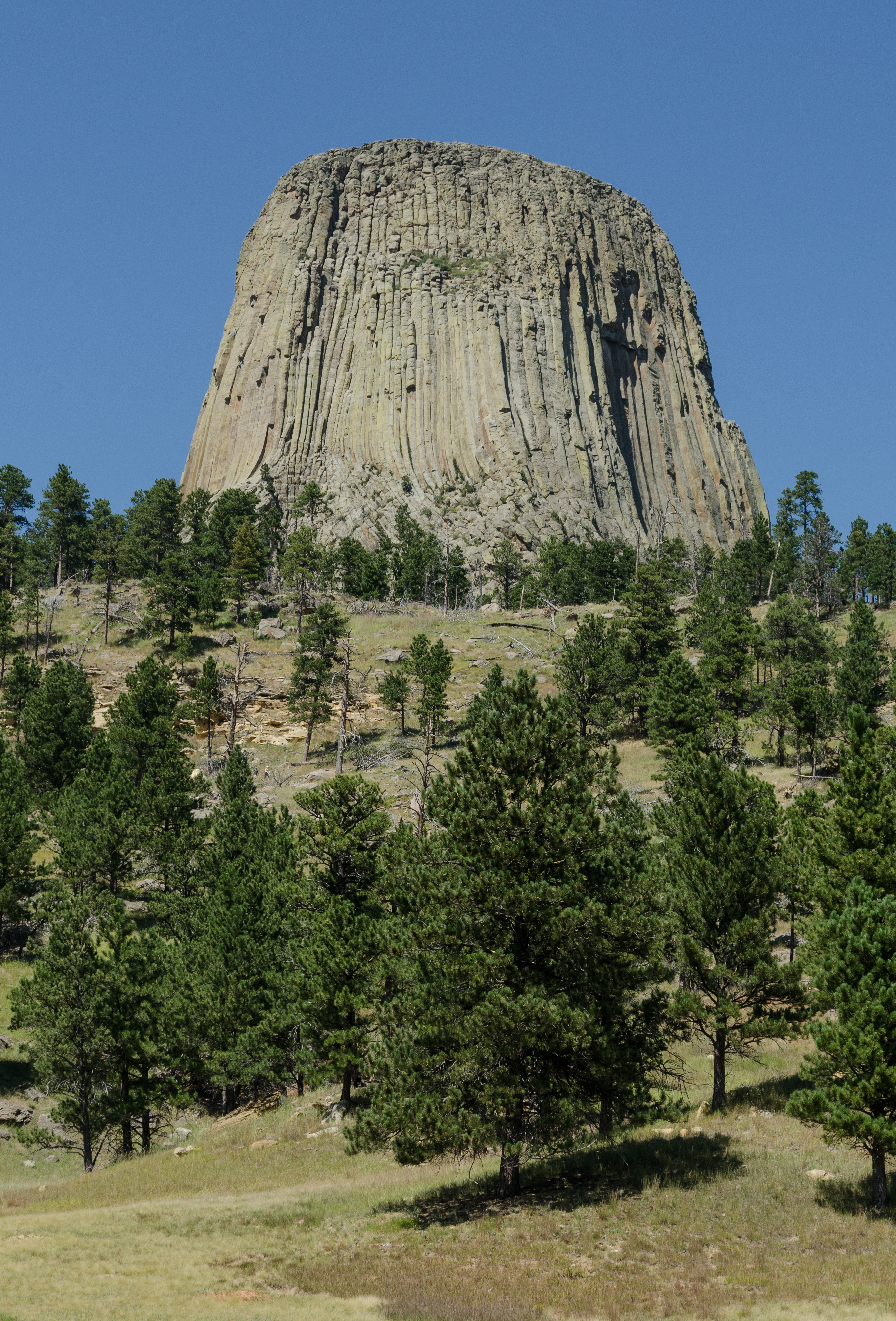 A southeast view of Devils Tower, Wyoming